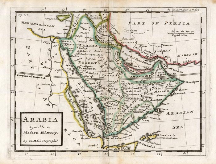 Arabia Agreable to Modern History